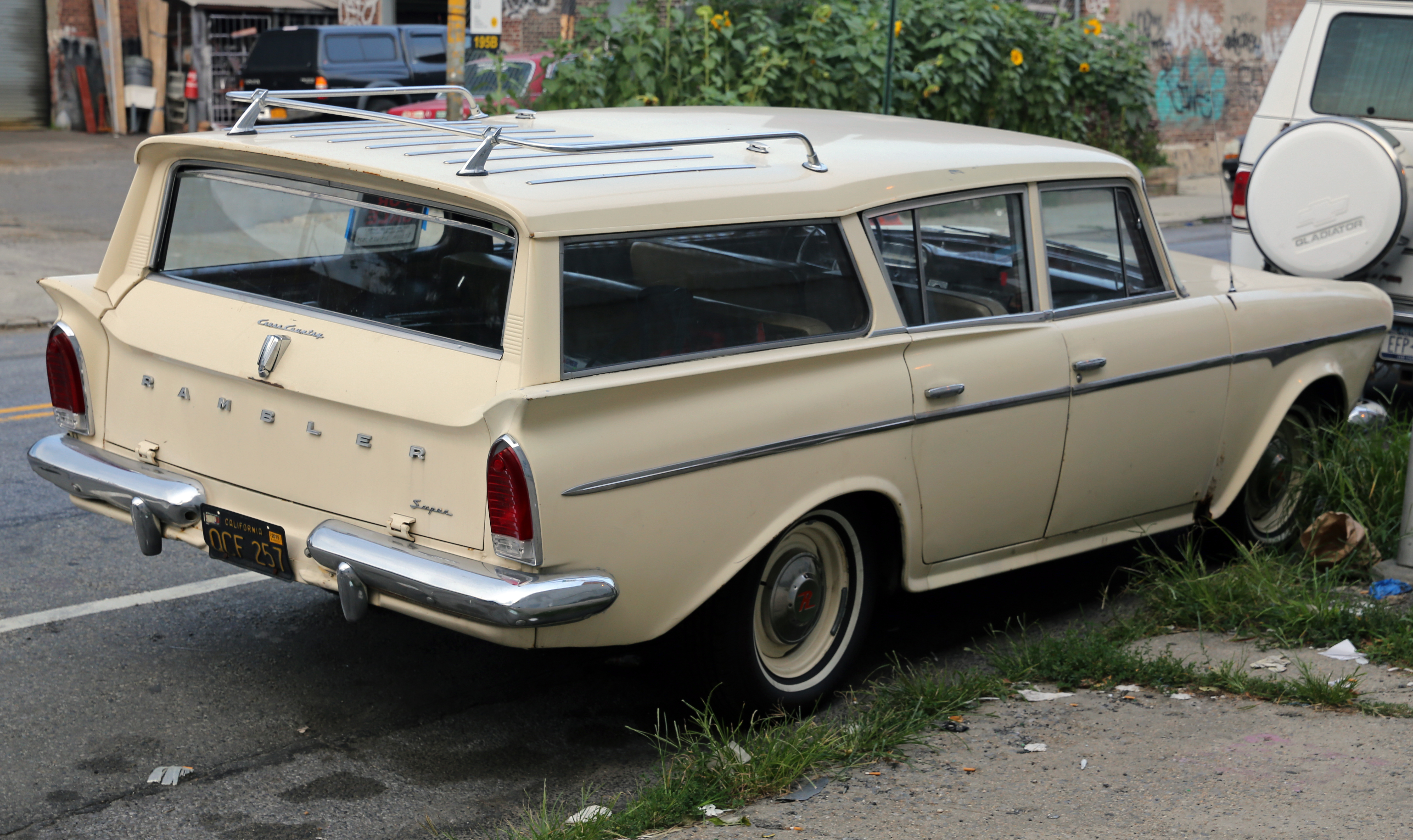 Rear right ¾ view of a 1960 Rambler Super Cross Country (=station wagon in AMCese). The better equipped "Custom" has a bit more chrome, notably on the edge of the tailfins and flanking the rear windscreen.